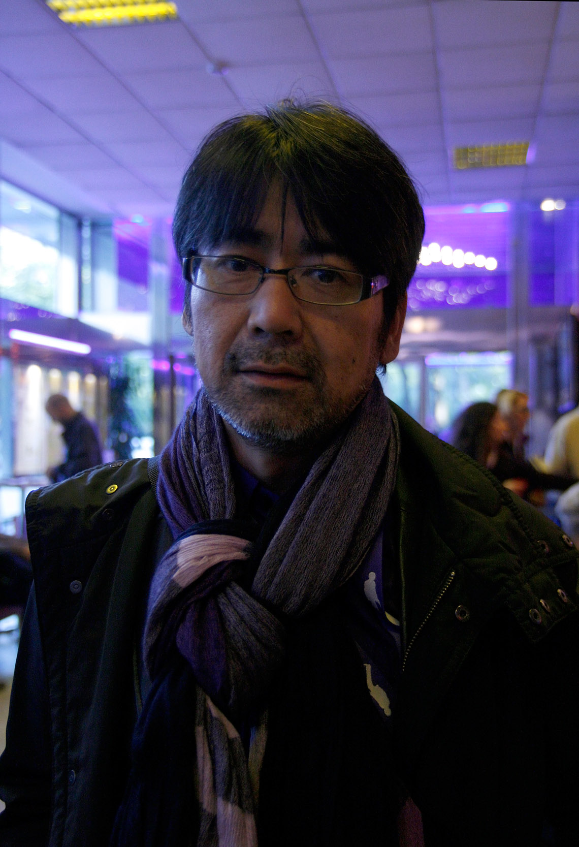 Nobuhiro Suwa attending the screening of his movie Yuki & Nina during the Vienna International Film Festival 2009, Gartenbaukino/Vienna.